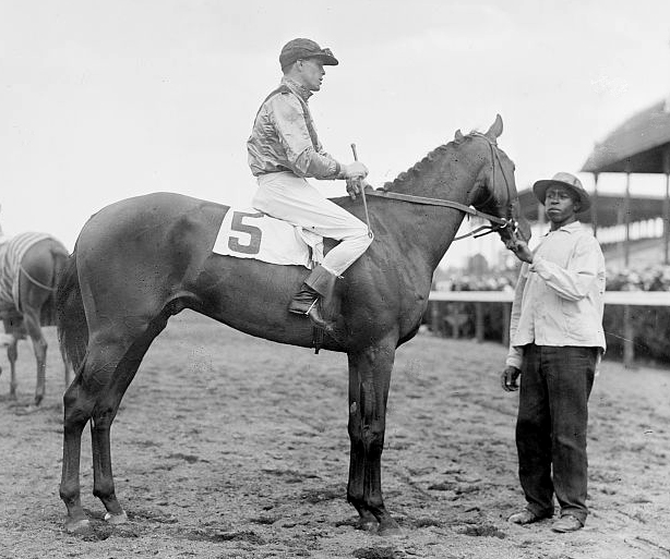 Bain News Service,, publisher. "Roamer" - Taggart up [between ca. 1910 and ca. 1915] 1 negative : glass ; 5 x 7 in. or smaller. Notes: Title from unverified data provided by the Bain News Service on the negatives or caption cards. Forms part of: George Grantham Bain Collection (Library of Congress). Format: Glass negatives. Repository: Library of Congress, Prints and Photographs Division, Washington, D.C. 20540 USA, General information about the Bain Collection is available at Persistent URL: Call Number: LC-B2- 2809-2